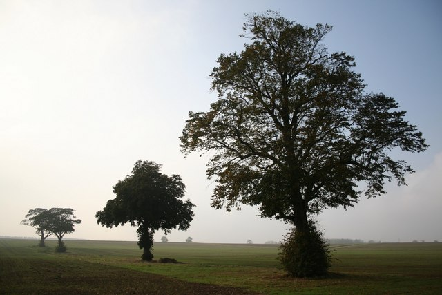 Trees in the mist